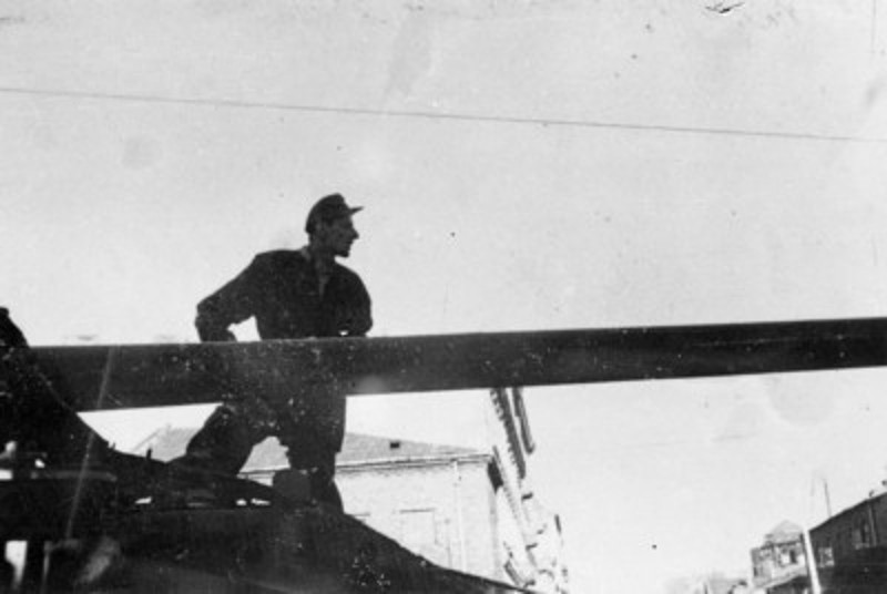 WarsawUprising: Wacław Micuta "Wacek", commander of tank platoon "Wacek" of "Zośka" Battalion on a German Panther tank around Okopowa Street.